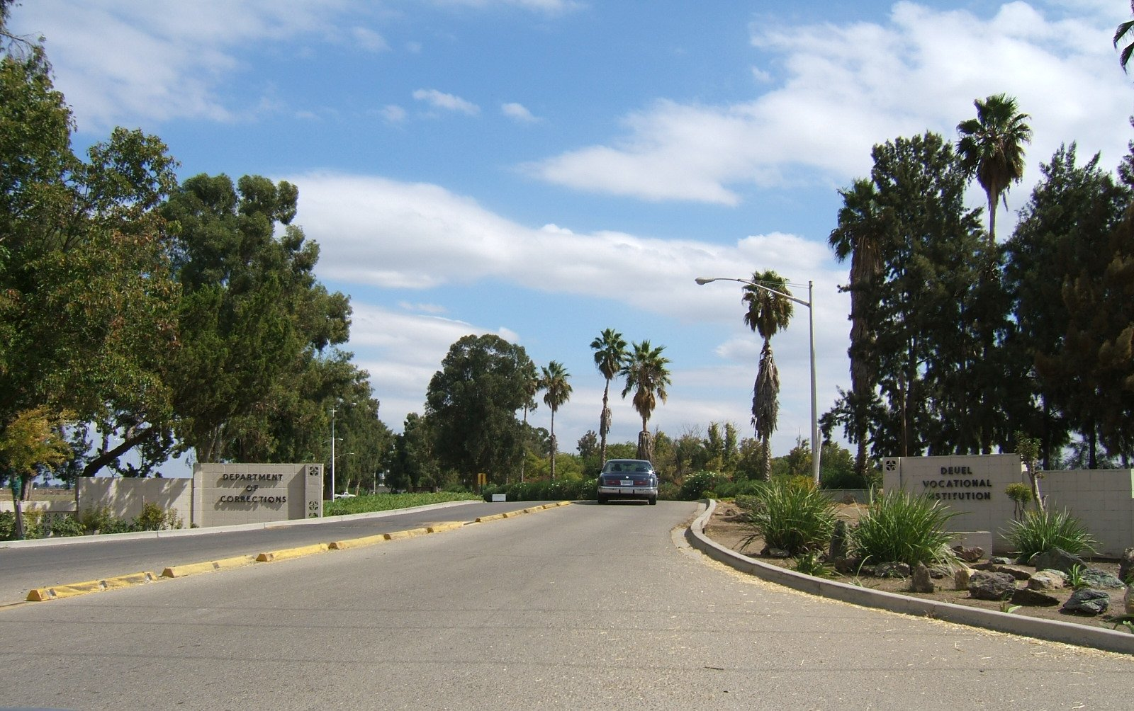 Main entrance of the Deuel Vocational Institution in Tracy, California, USA (San Joaquin County). Seen from Kasson Road.